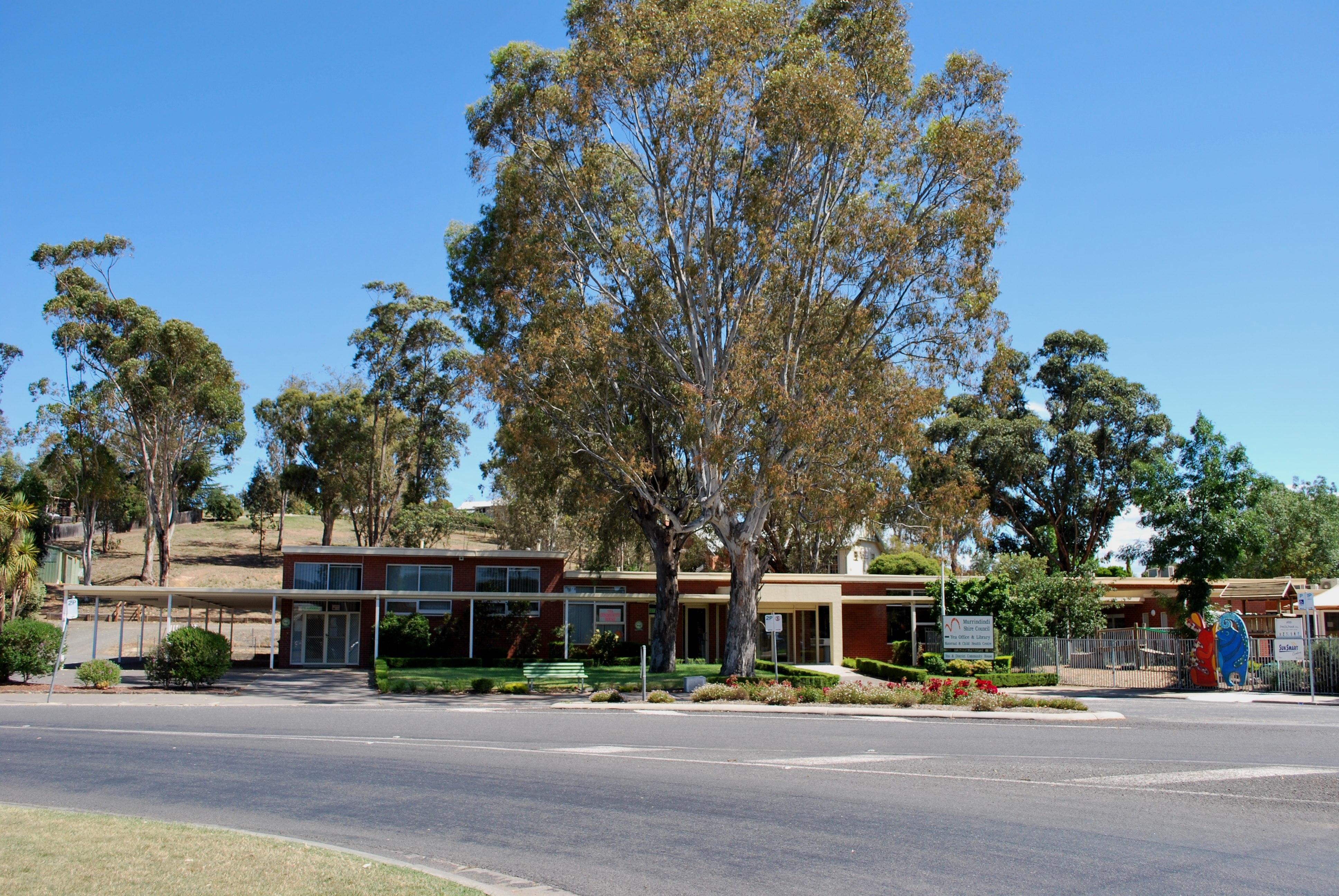 Shire of Murrindindi office at Yea, Victoria